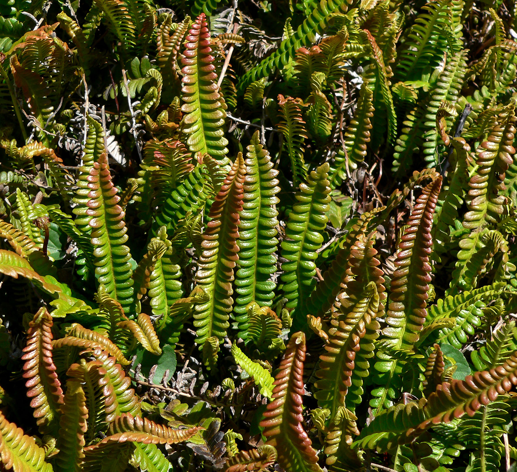 Blechnum penna-marina at the University of California Botanical Garden, Berkeley, California